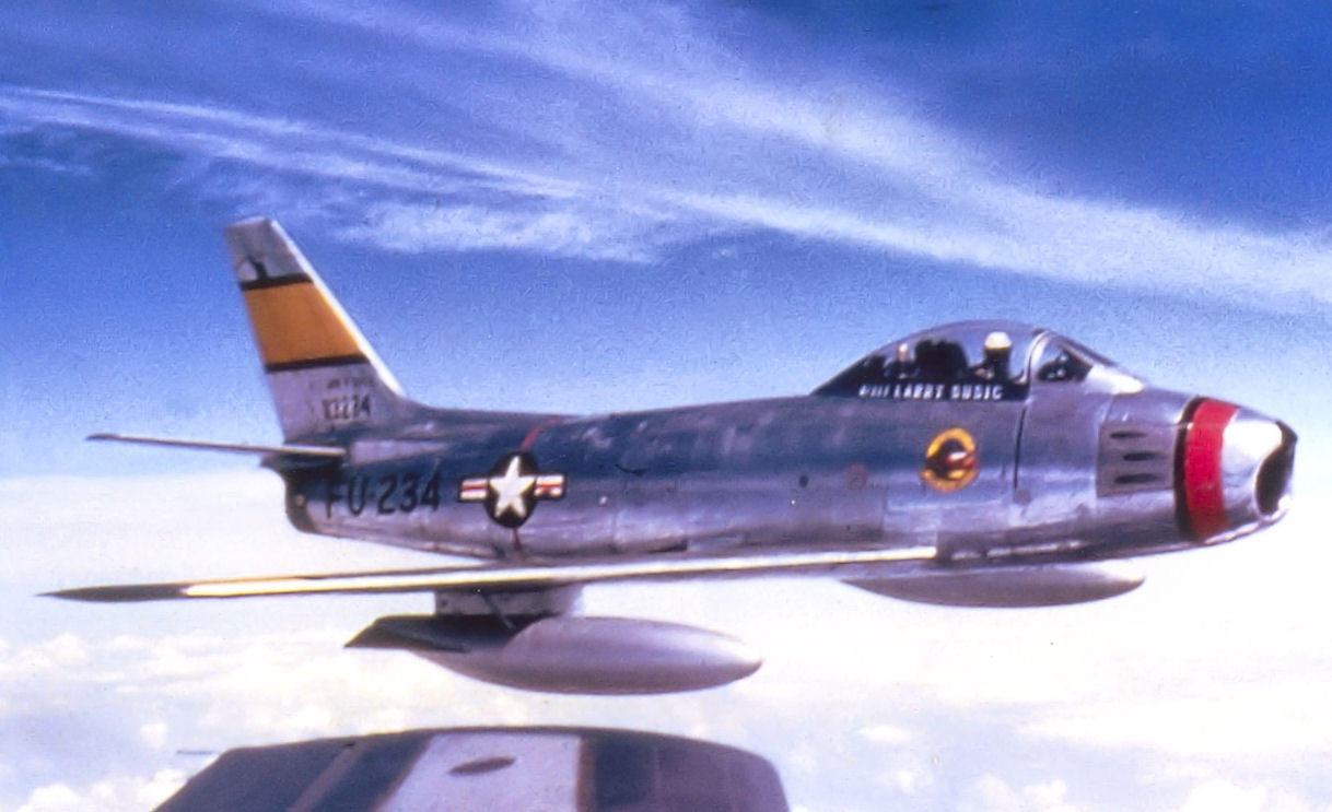 78th Fighter-Bomber Squadron - North American F-86F-25-NH Sabre - 51-13234